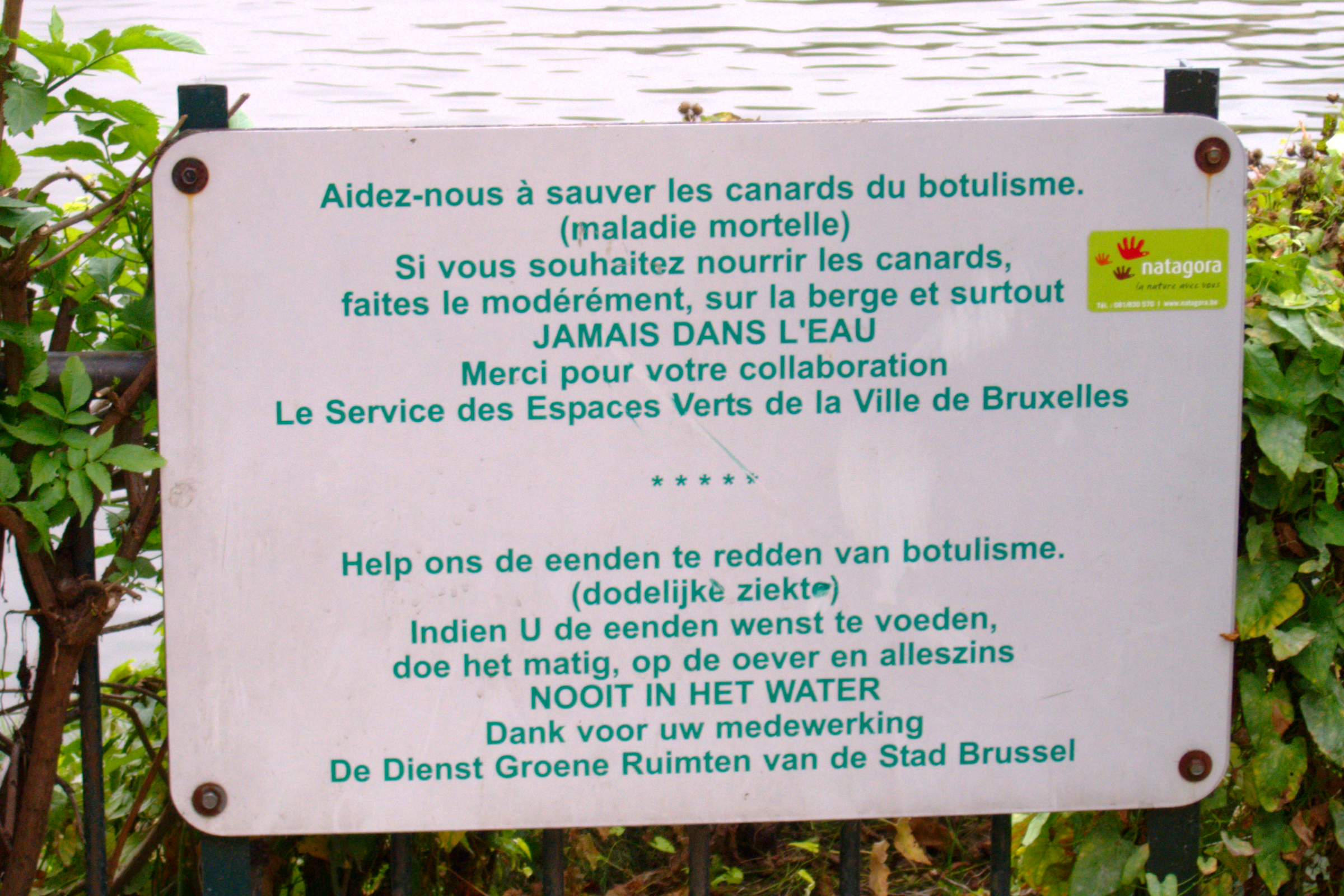 The city of Brussels gives instructions to prevent botulism.